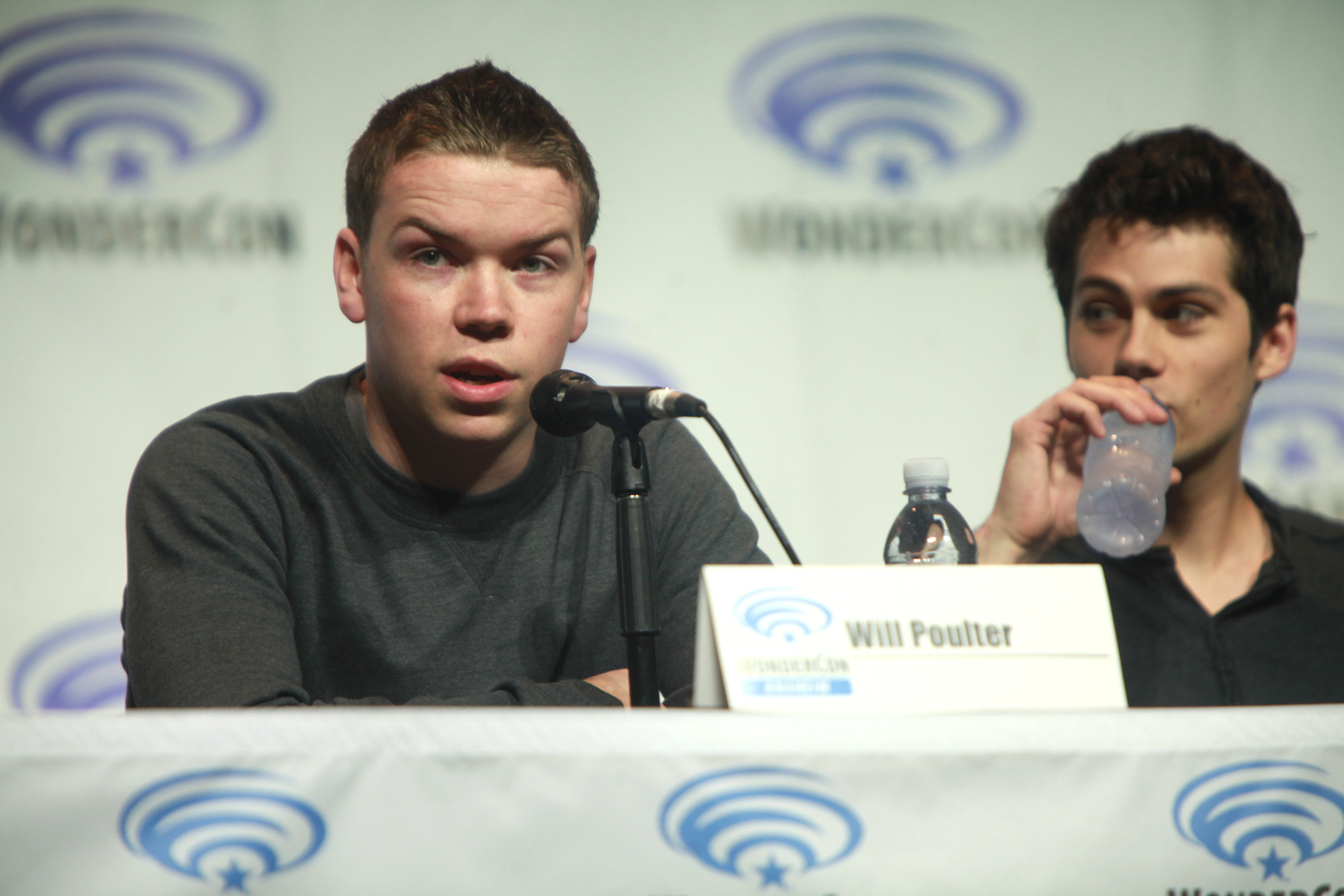 Will Poulter and Dylan O'Brien speaking at the 2014 WonderCon, for "The Maze Runner", at the Anaheim Convention Center in Anaheim, California.